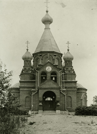 Tuusula Russian orthodox military Church. The church was built in 1900 and demolished in 1958.